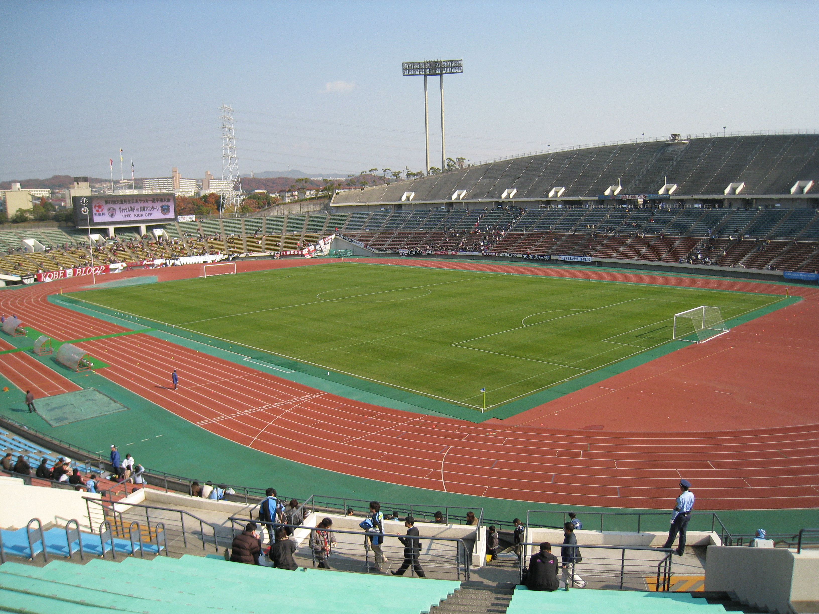 Kobe Universiade Memorial Stadium